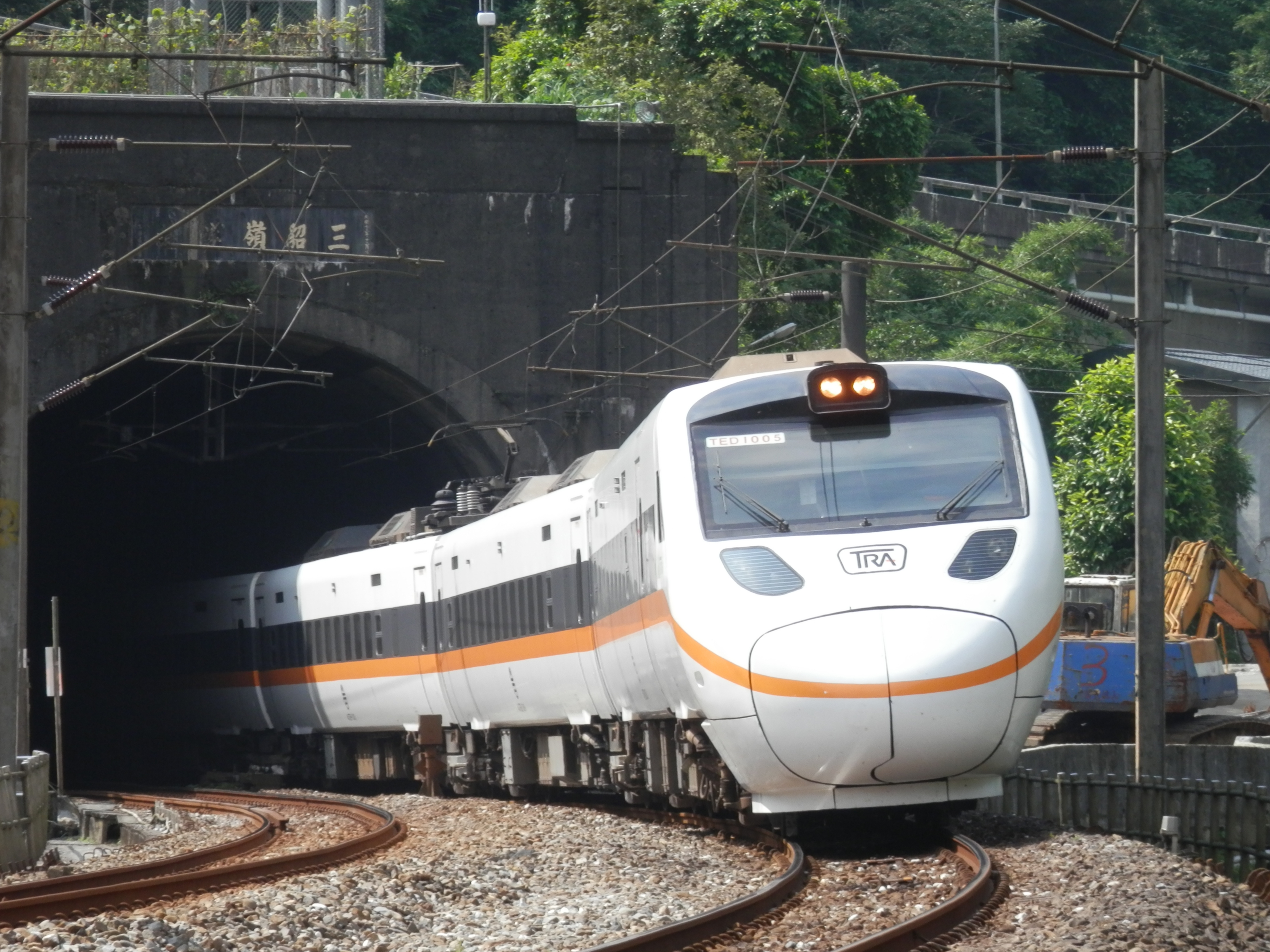 TRA Tze-Chiang Ltd-Exp Type EMU TEMU1000 at Yilan Line between Mudan Station and Sandiaoling Station